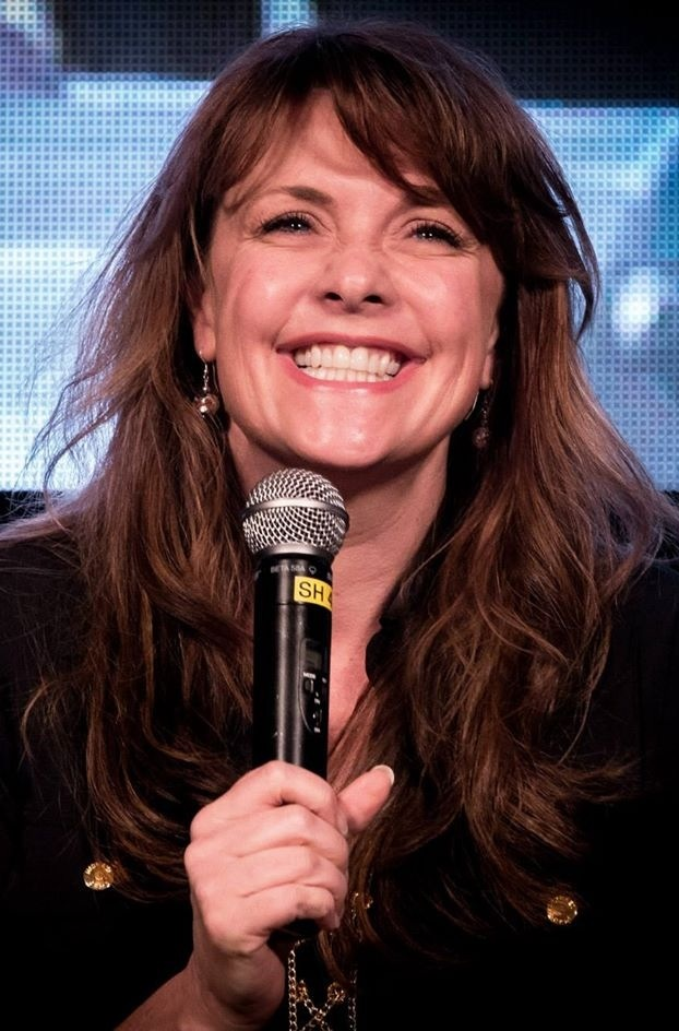 Amanda Tapping at Oz Comic Con in Adelaide, Australia in April 2014